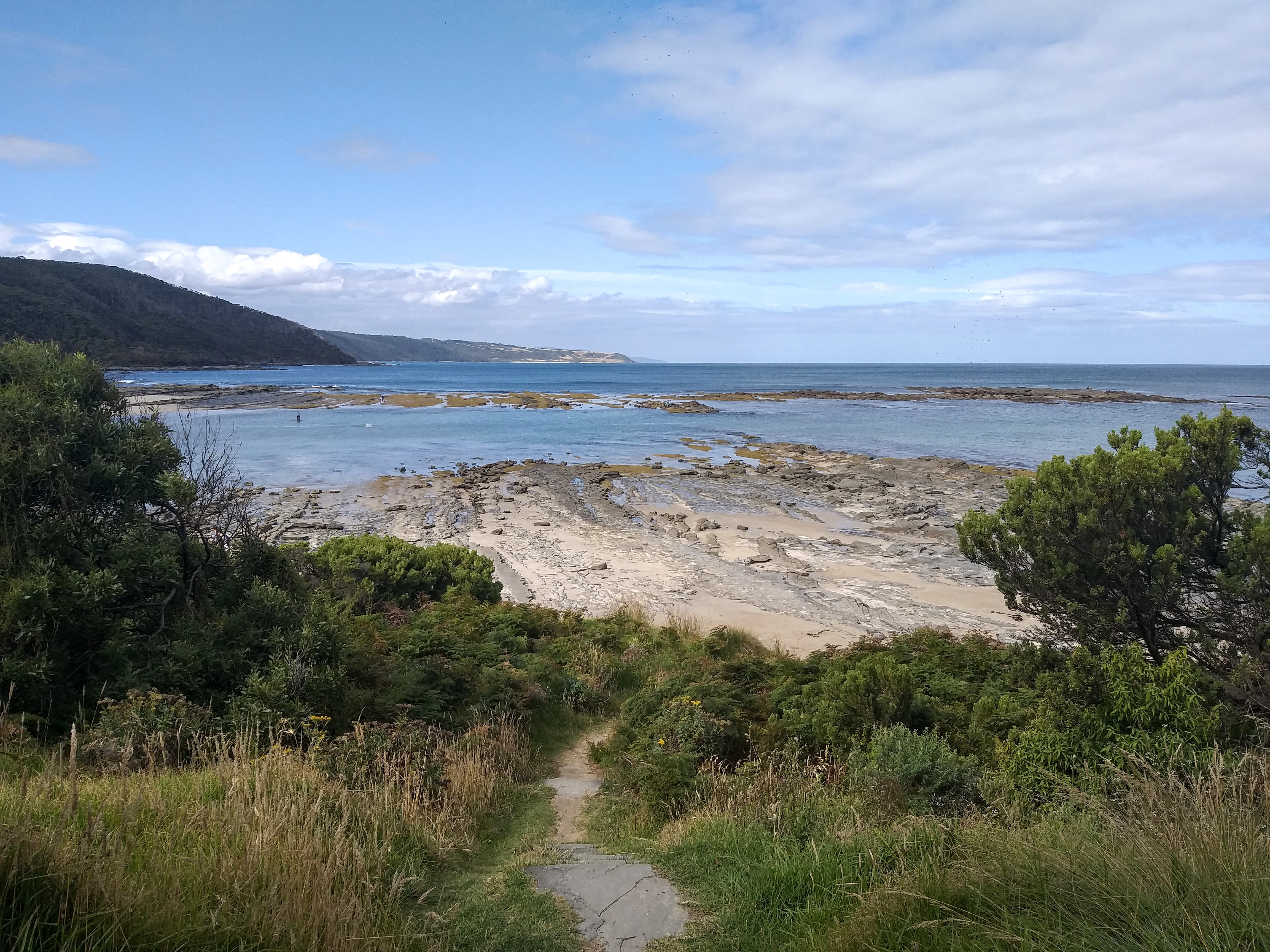 Blanket Bay at low tide viewed from a track from just off the camping grounds.